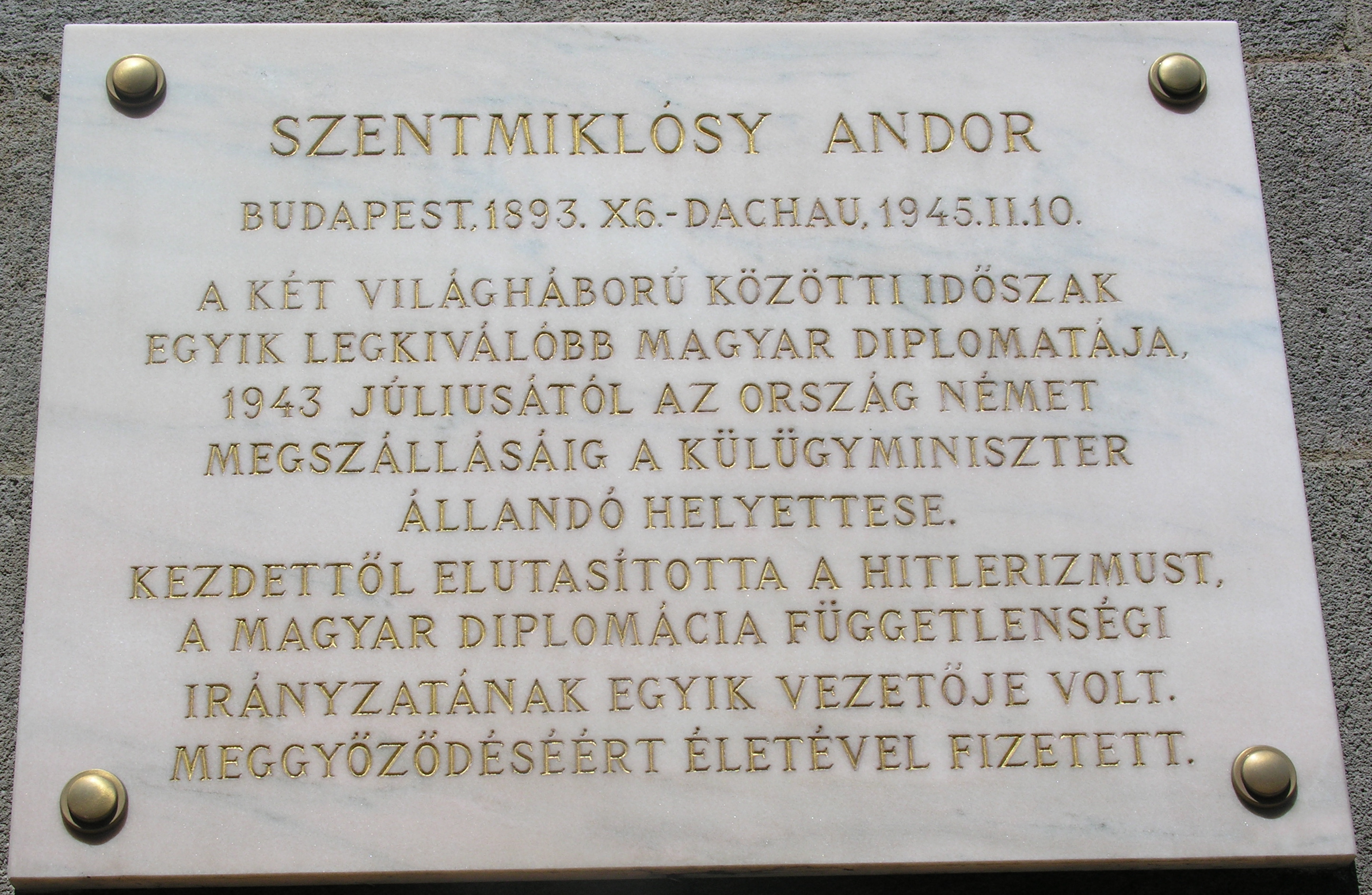 Commemorative plaque of Andor Szentmiklósy in Budapest District II, Ganz Street No 1